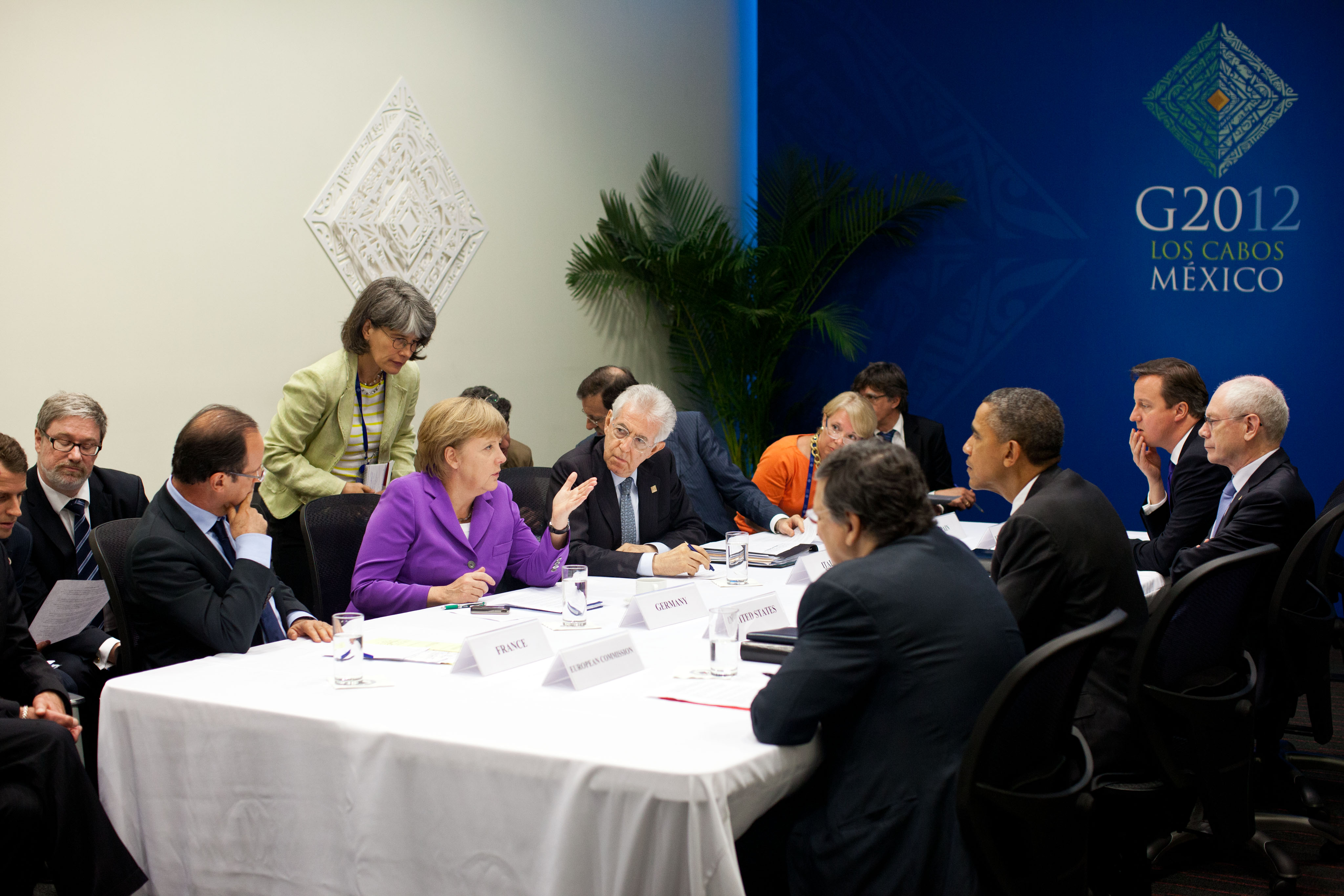 United States President Barack Obama participates in a meeting with Eurozone leaders at the Los Cabos Convention Center in Los Cabos, Mexico on 19 June 2012. Seated, clockwise around the table from left, are: President François Hollande of France; Chancellor Angela Merkel of Germany; Prime Minister Mario Monti of Italy; Prime Minister David Cameron of the United Kingdom; Herman Van Rompuy, President of the European Council; and José Manuel Barroso, President of the European Commission.